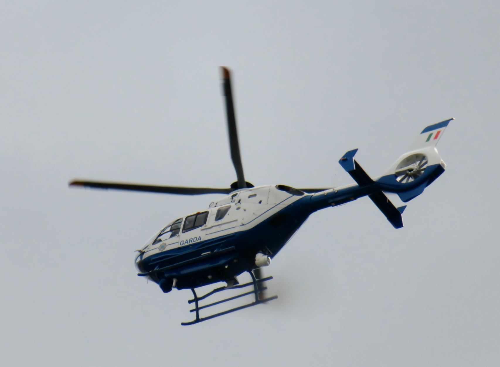 A Garda Síochána helicopter performing surveillance in Knocklyon, Dublin.